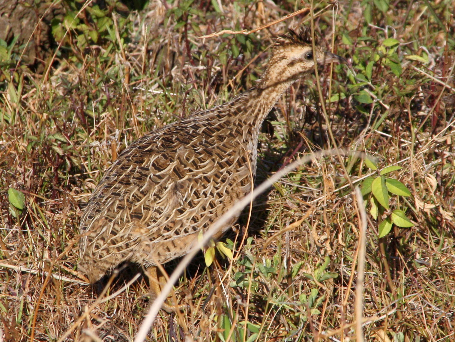 Nothoprocta perdicaria, Chilean Tinamou, Easter Island